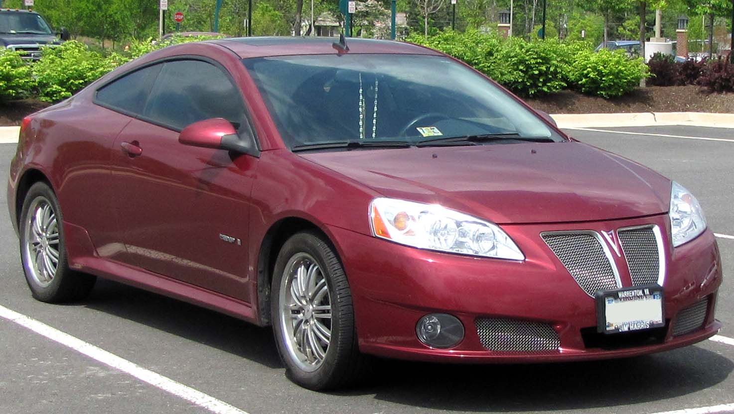 Pontiac G6 photographed in Gainesville, Virginia, USA.